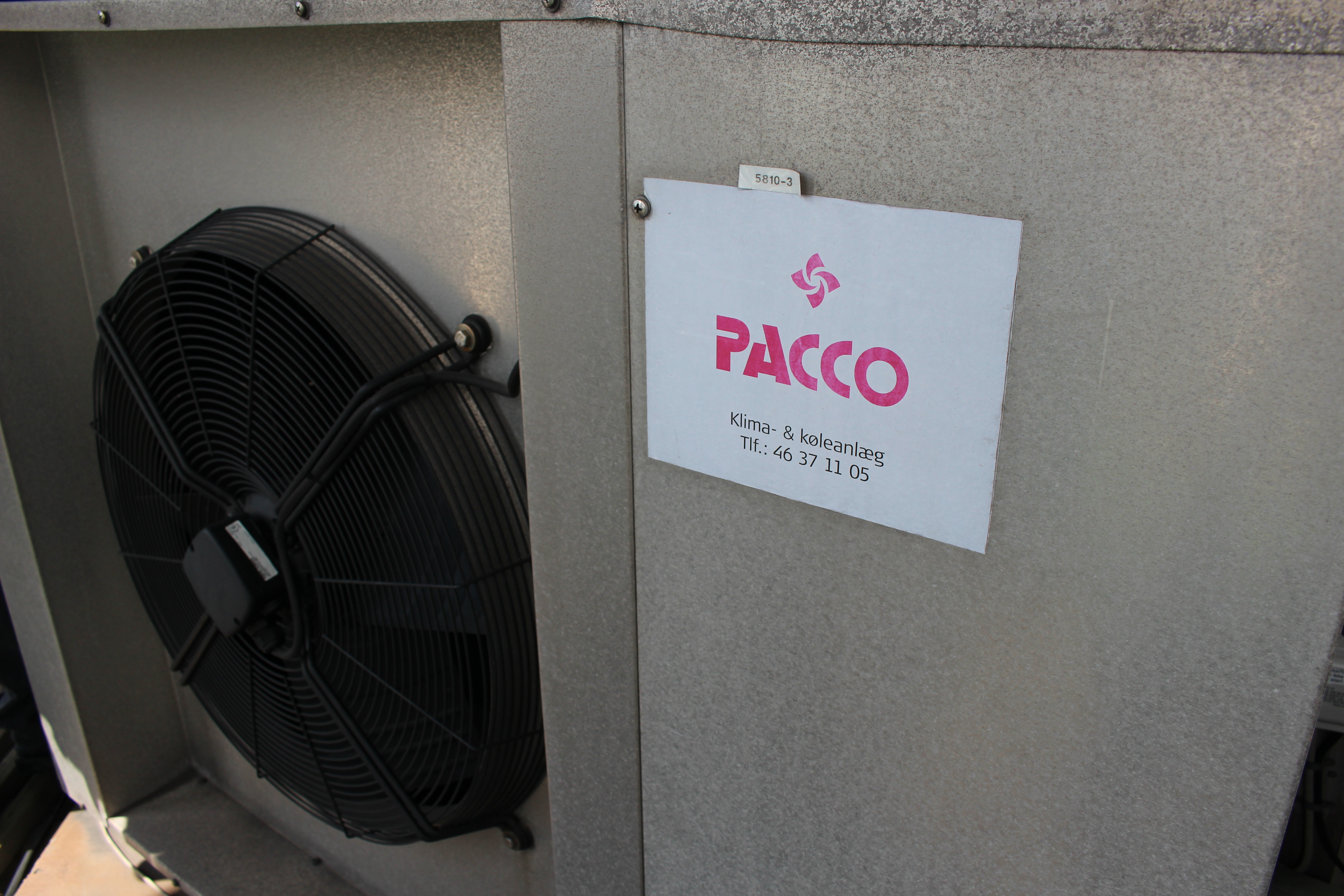 Indoor climate regulation equipment from PACCO at the tower in Børsen, Copenhagen, Denmark.